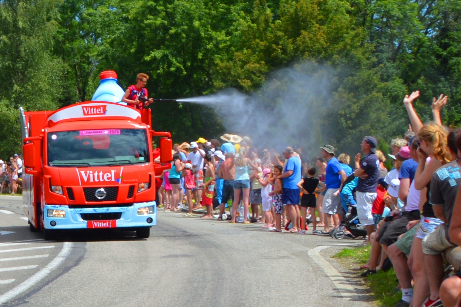 A Nissan NT500 truck in the Advertising Caravan of the Tour de France 2014. Photo taken on the D27 near the Lac de Chalain.